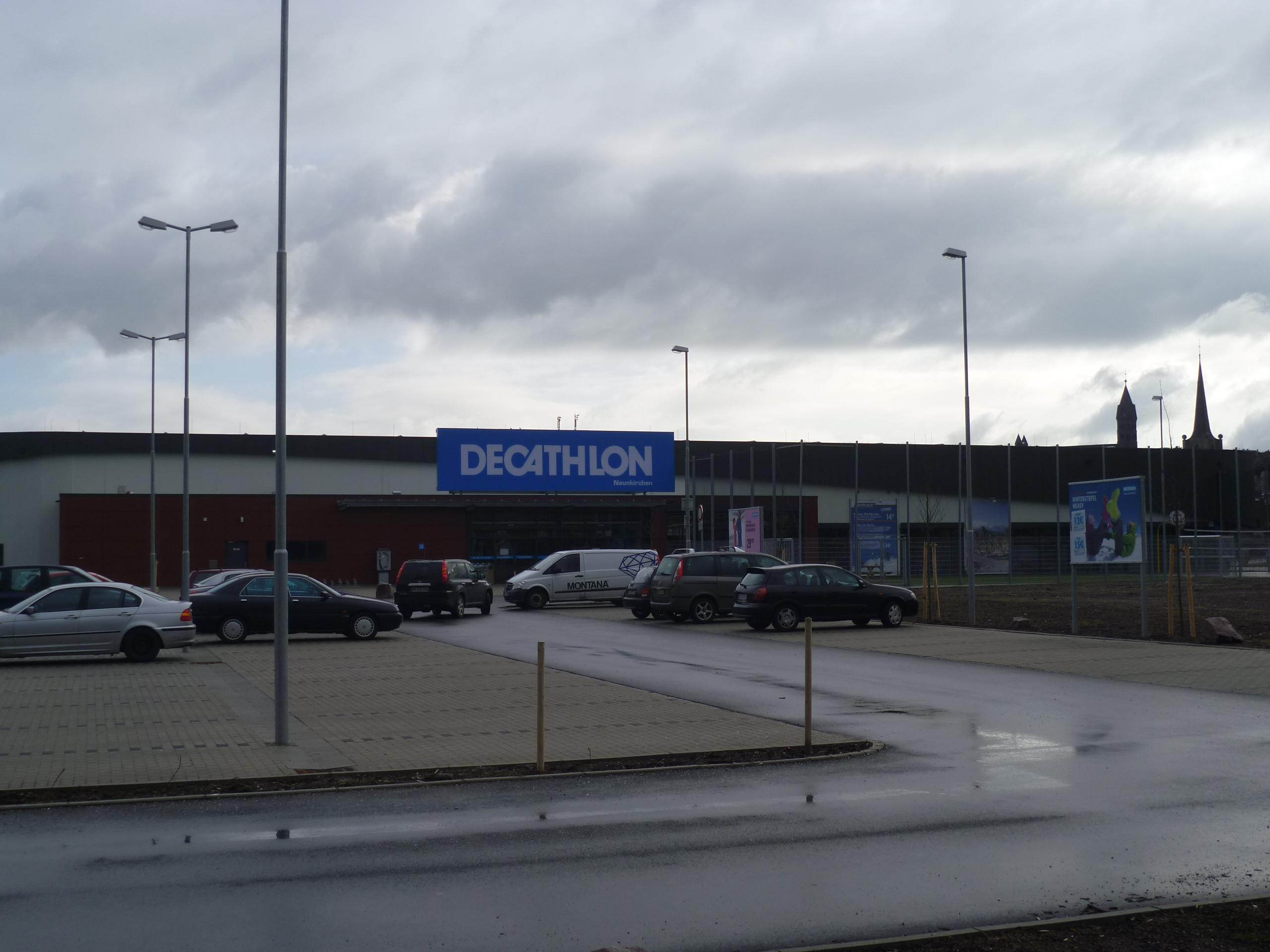 Decathlon store in Neunkirchen (Saar)